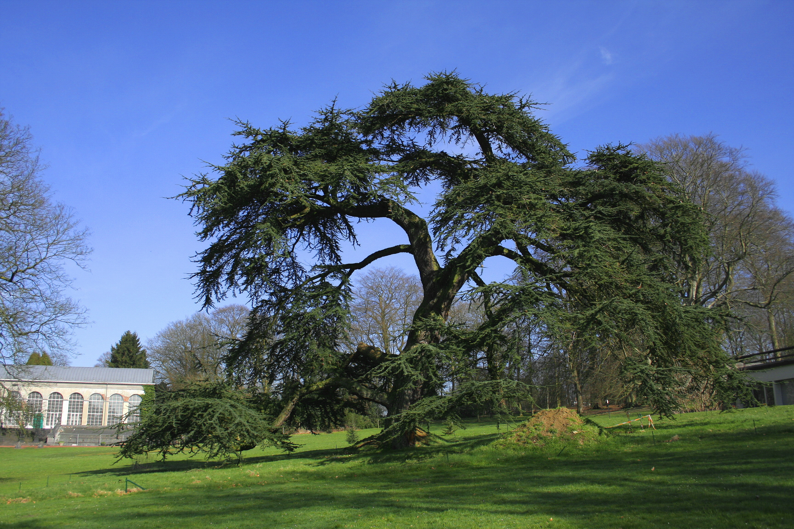 Lebanon Cedar.